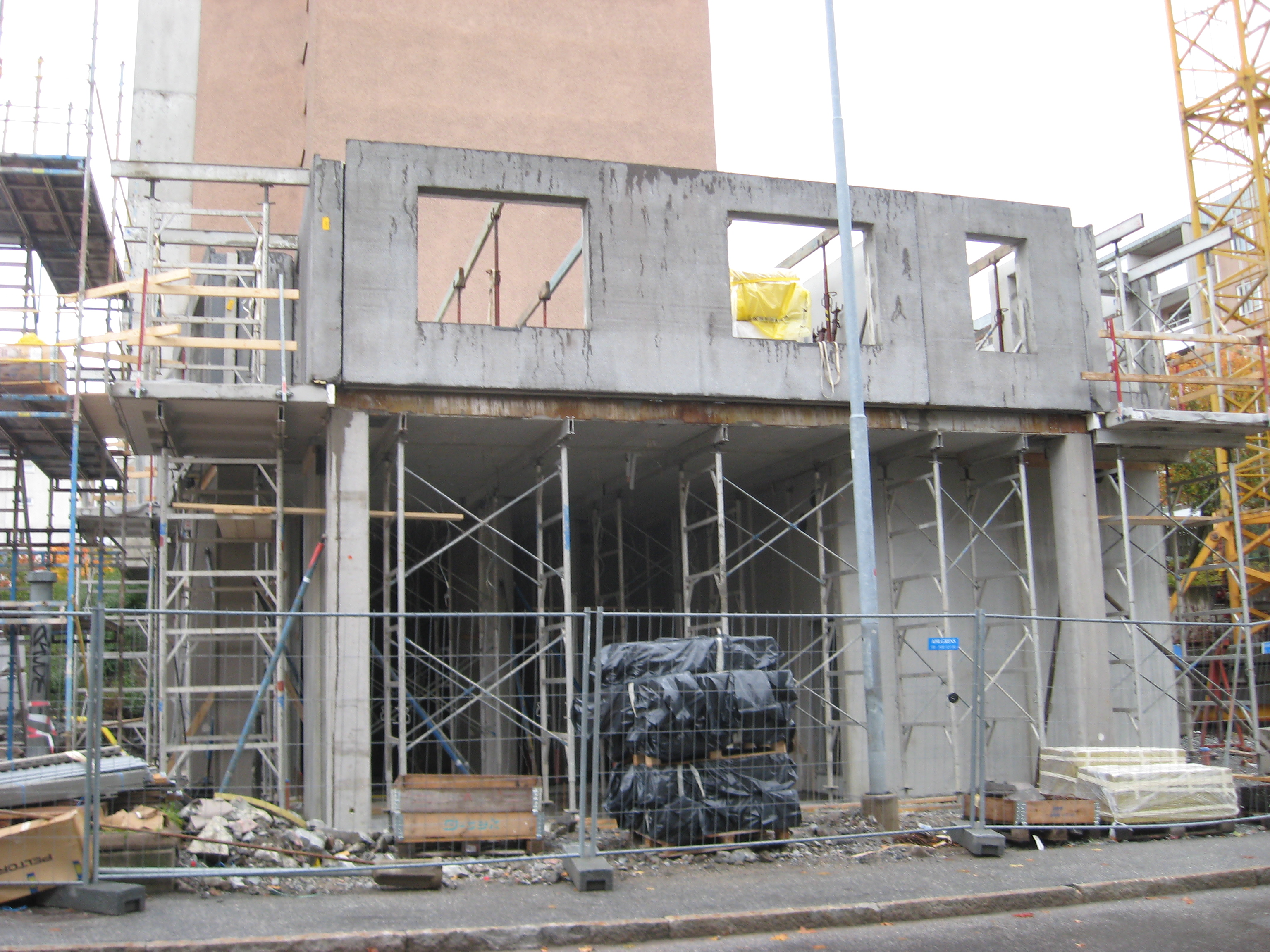 Construction of a building using pre-fabricated concrete elements.